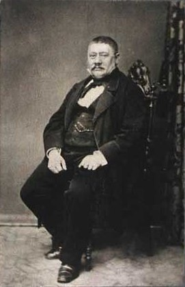 Edvard Meyer (1813-1880), Danish journalist and photographer